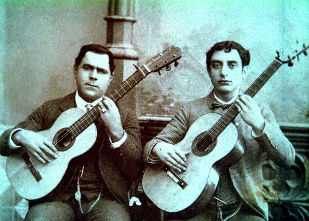 Juan Breva & Paco Lucena. Juan Breva (real name: Antonio Ortega Escalona; 1844 - 1918) - famous Spanish flamenco singer and guitarist from Malaga. He was responsible for popularizing the malagueña, a lighter style of flamenco that was to take the café cantante scene by storm.